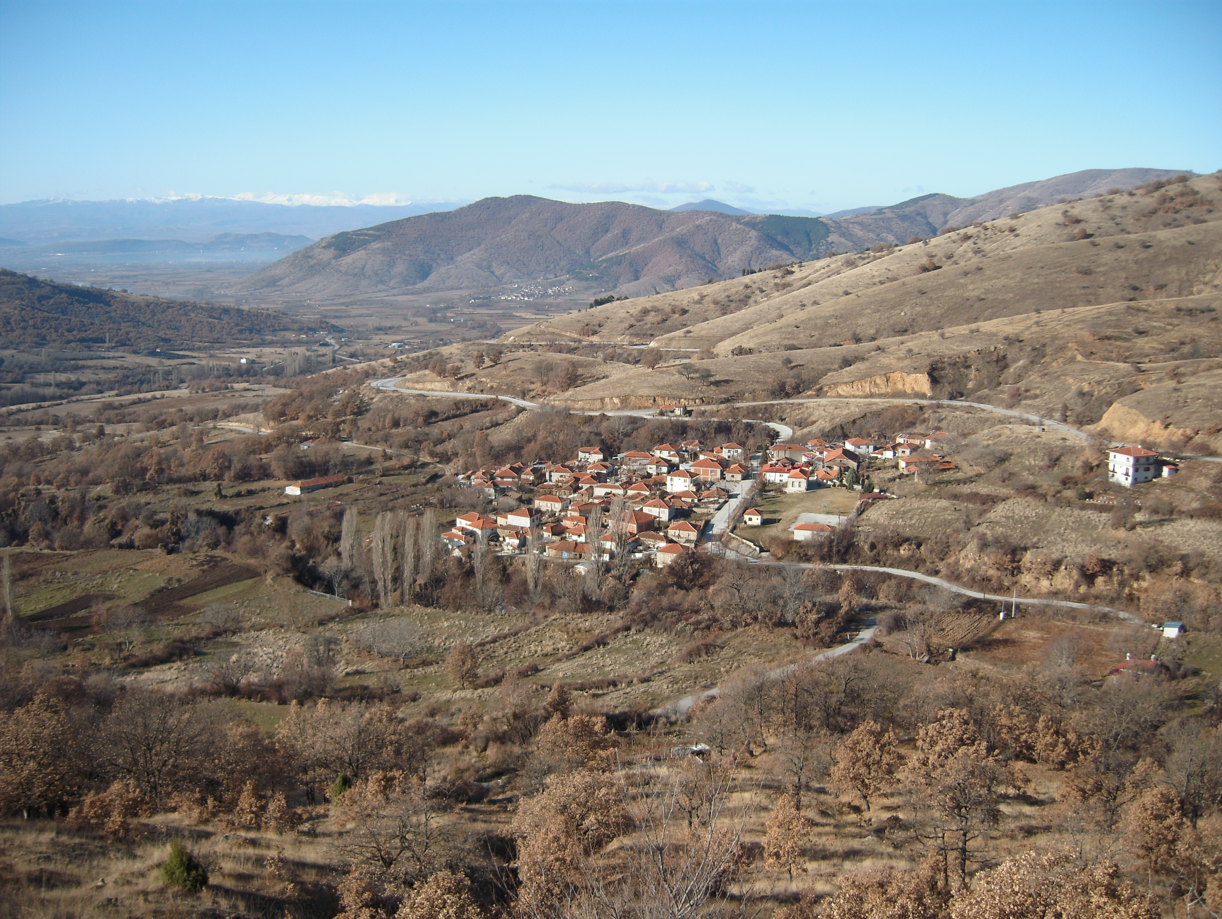 Bobishta / Verga